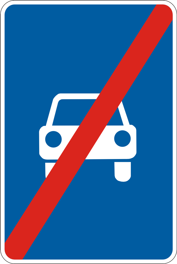 End of road for exclusive use by motor vehicles.